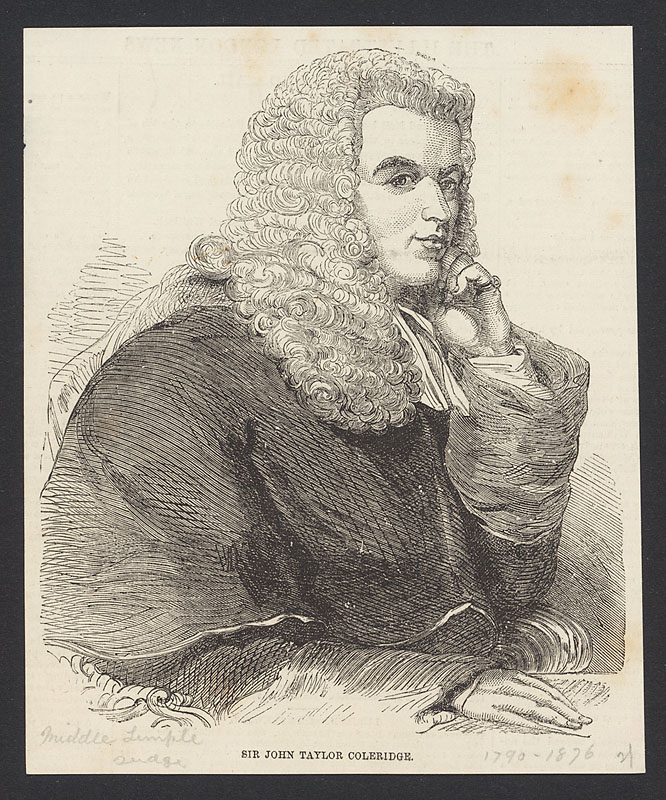 A portrait of Sir John Taylor Coleridge (9 July 1790 – 11 February 1876), an English judge of the King's Bench.